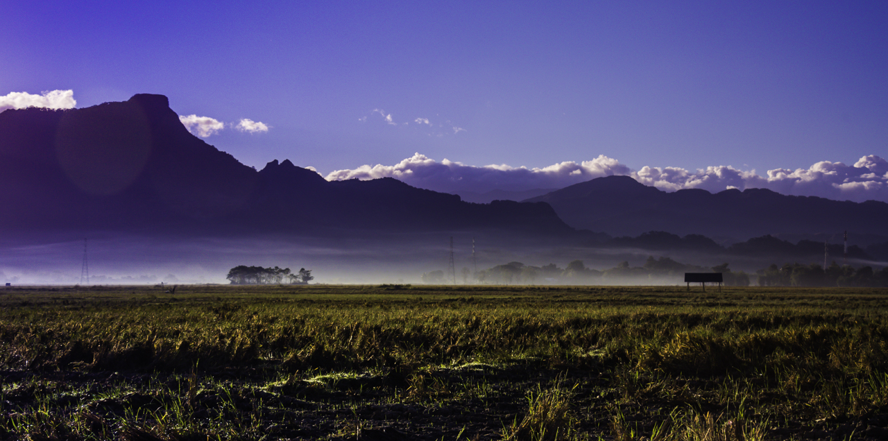 sorongan mountain